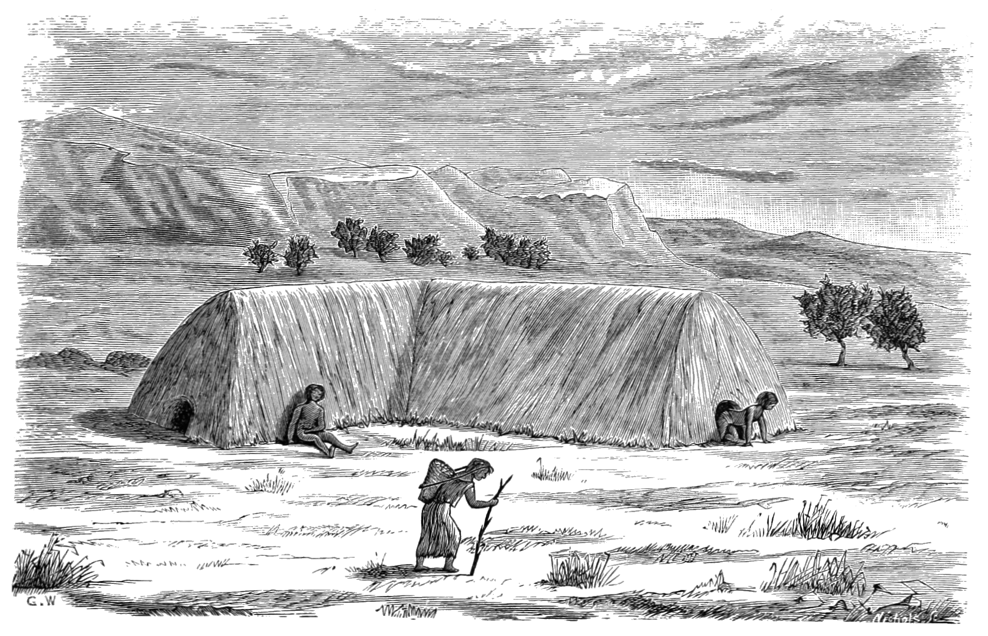 Gallinomero thatched lodge — Southern Pomo peoples of northern California.